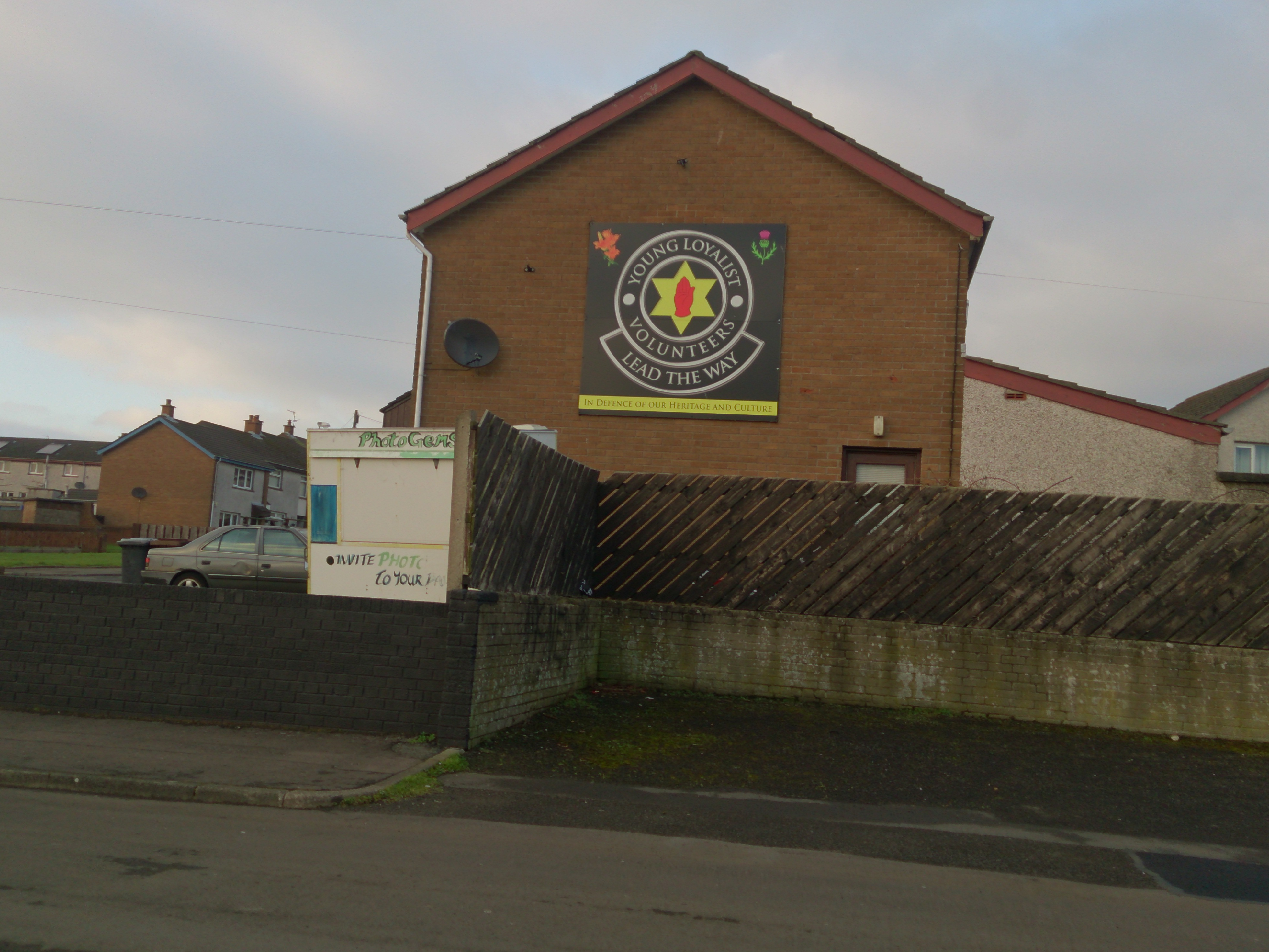 A wall sign in Woodgreen on the Ballycraigy estate in Antrim town.It depicts the Young Loyalist Volunteers who are the youth wing of the paramilitary group the Loyalist Volunteer Force.